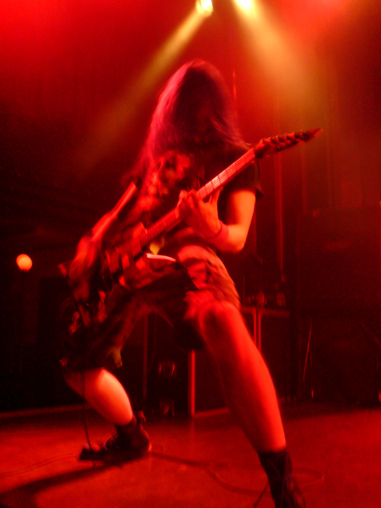 Patrik Jensen in Barcelona on March 22, 2009